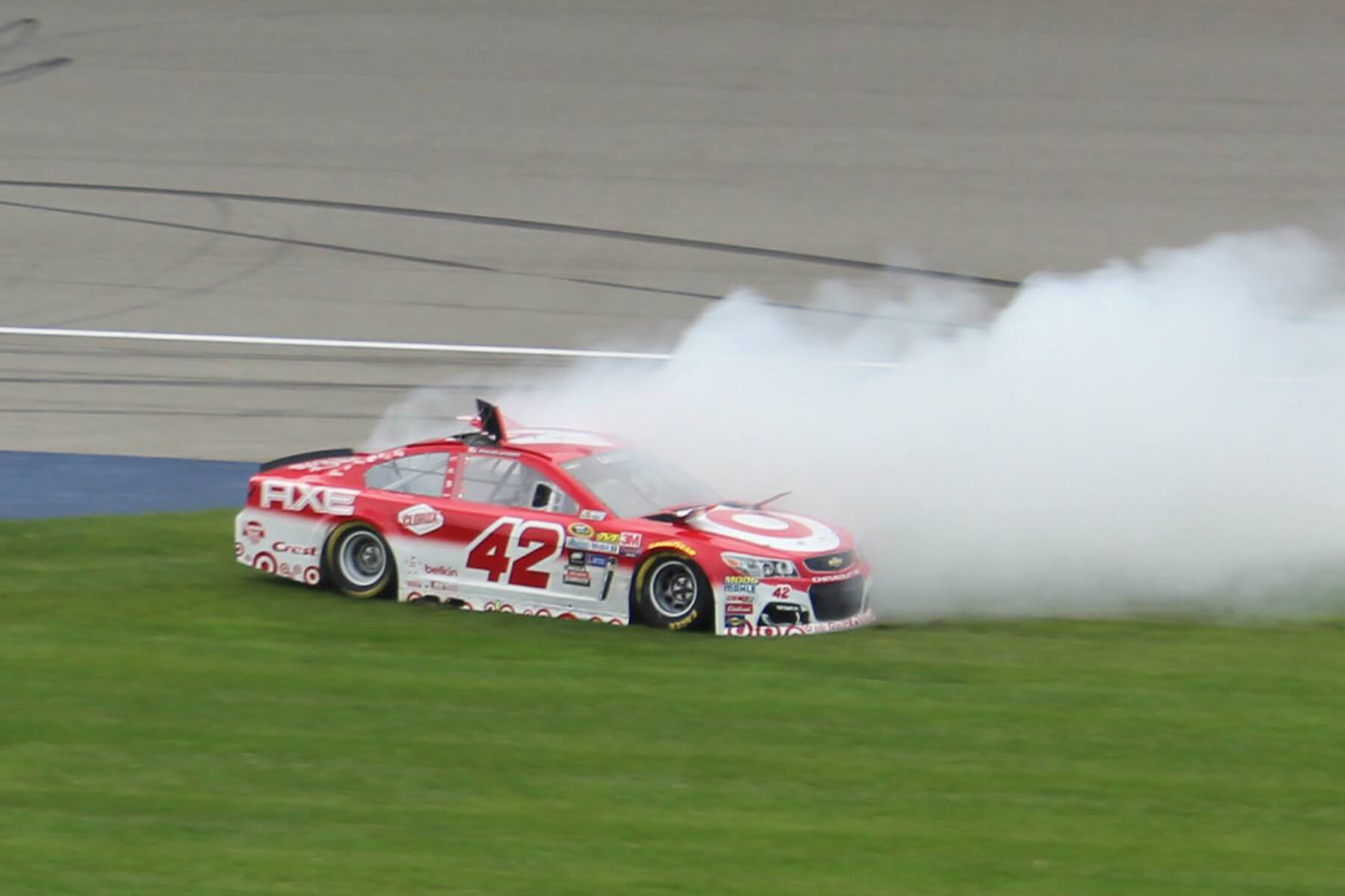 (Joseph Tregembo-NASCAR Photographer)